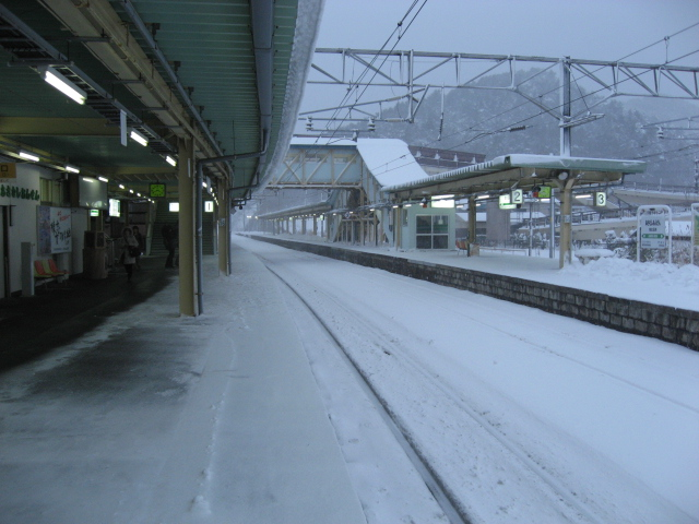 Asamushi-Onsen Station, on the Tohoku Main Line, Aomori